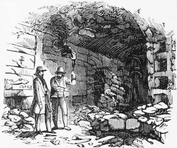 Catacombs